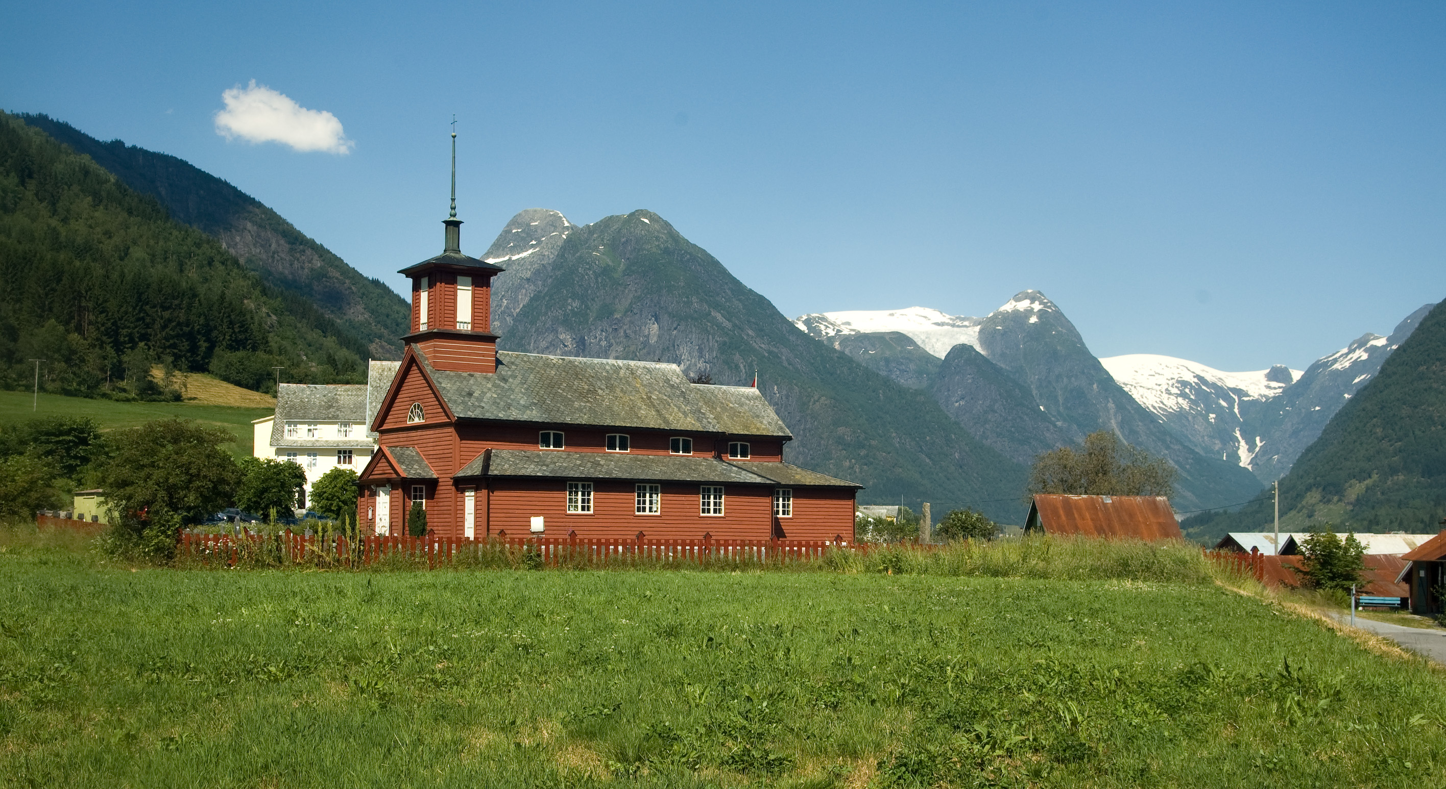 The church in Fjærland in Sogndal municipality, Sogn og Fjordane, Norway.